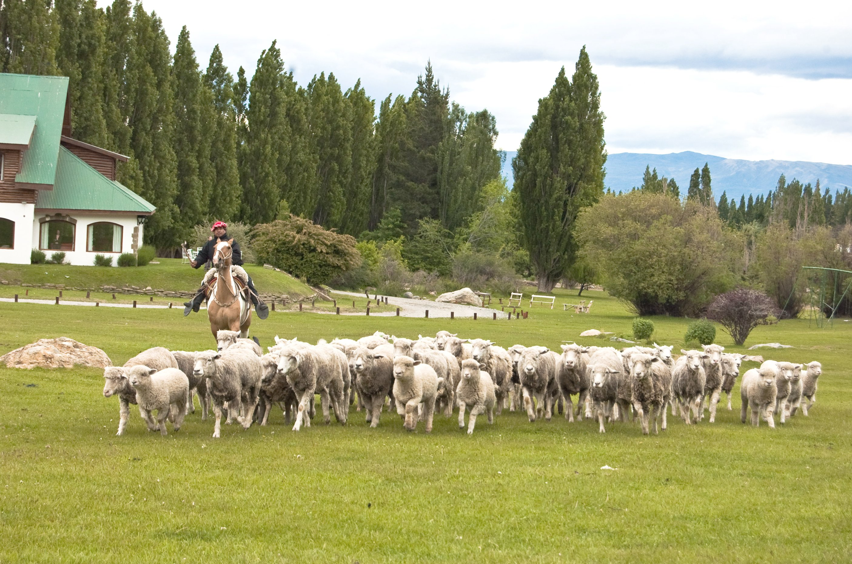 Sheep being herded on a farm in El Calafate, Patagonia, Argentina.